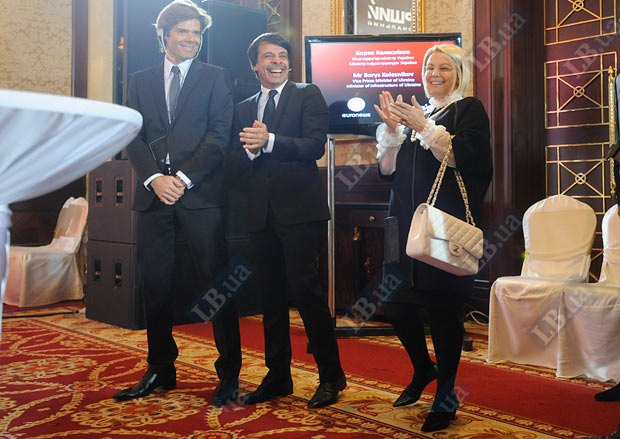 During the presentation of the Ukrainian version of Euronews: Michael Peters, Walid Harfouch and Anna Herman